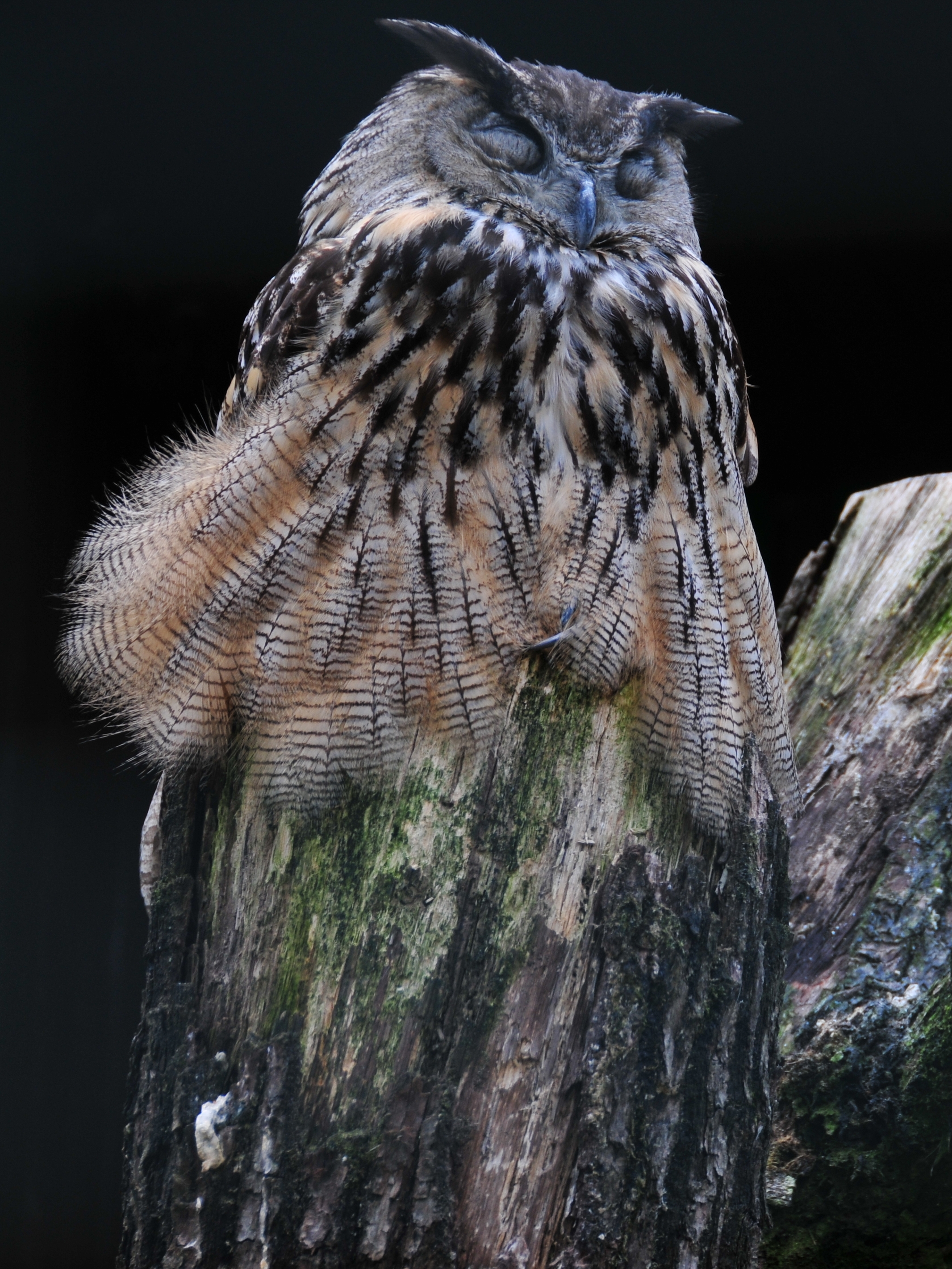 Dozing Eagle Owl Bubo bubo on a tree trunk